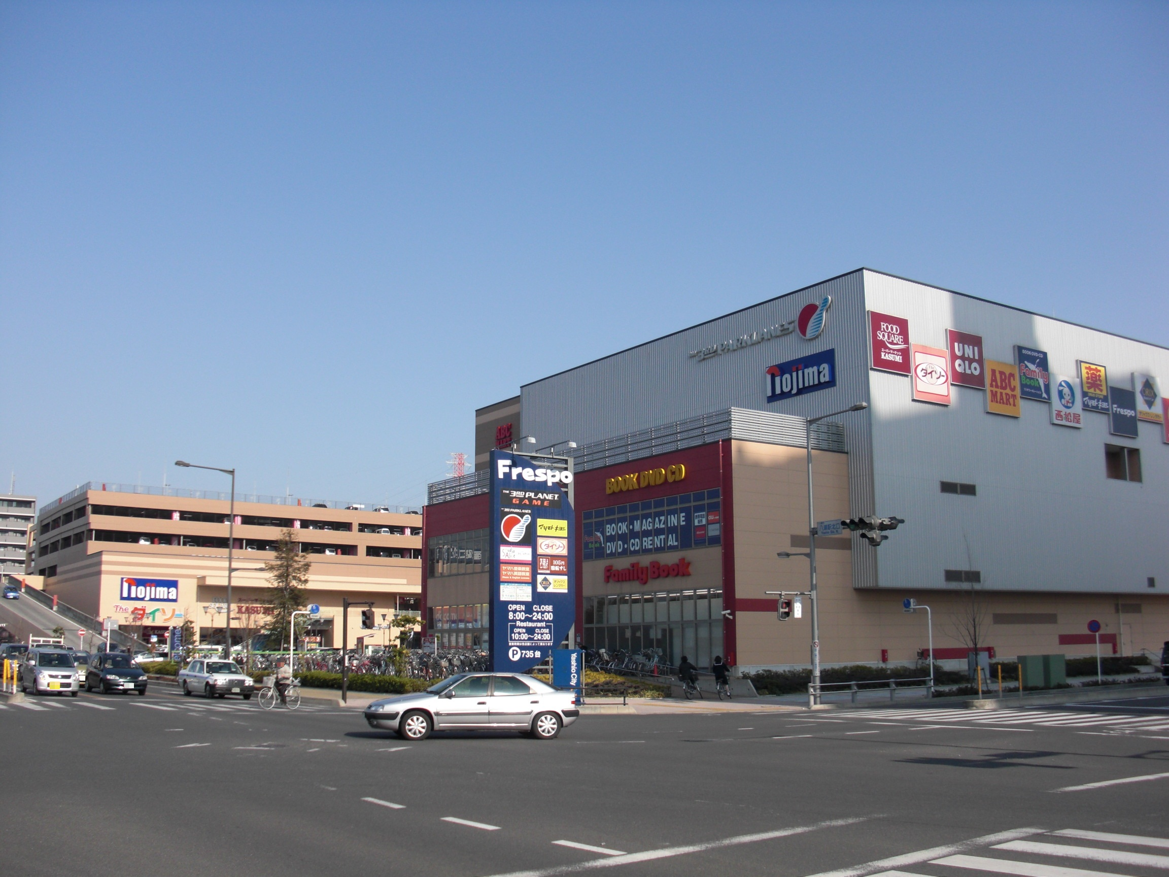 This is a shopping center in Yashio, Saitama, Japan.